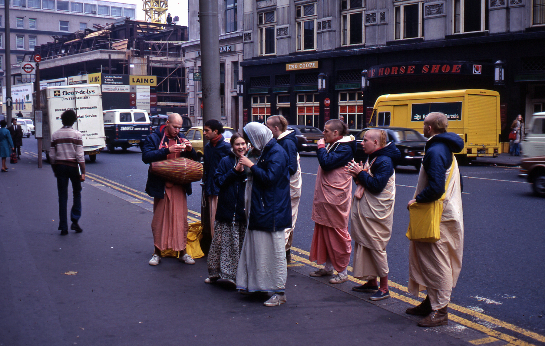 Hare Krishna People in London England